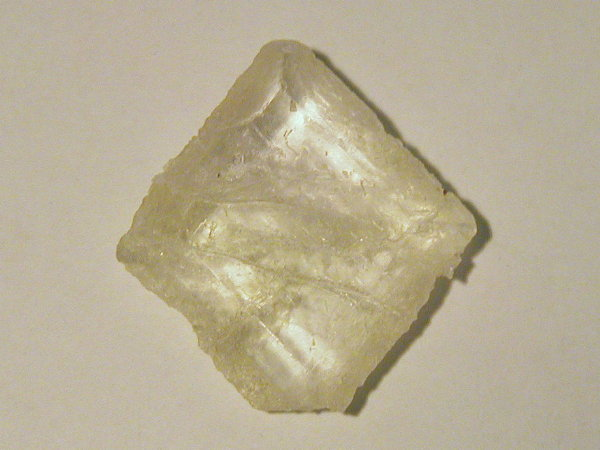 Idiomorphic Kainite - Locality: Brefeld Mine, Tarthun/Staßfurt, Saxony-Anhalt, Germany - crystal size: 3.8 cm